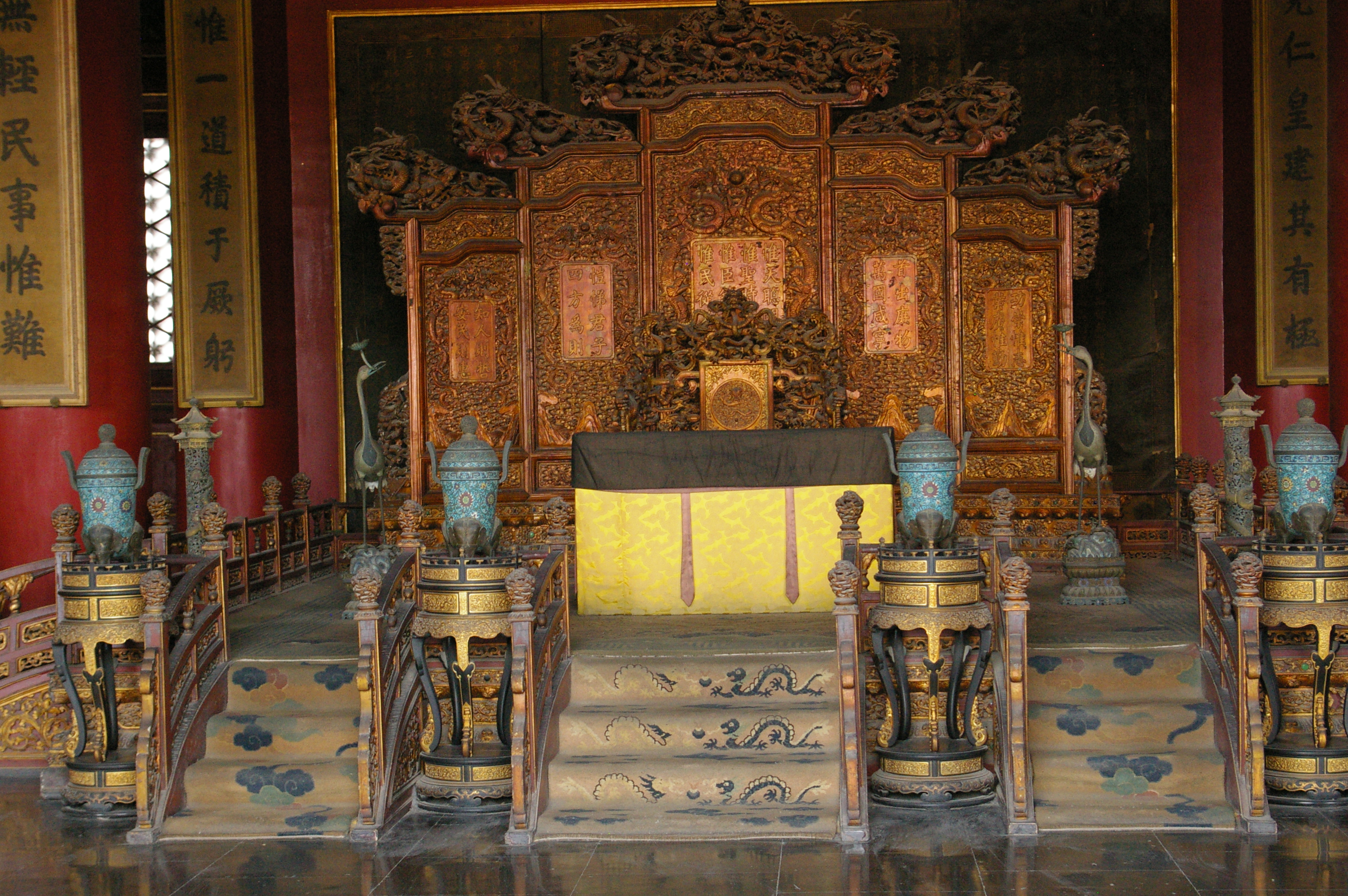 Forbidden City in Beijing